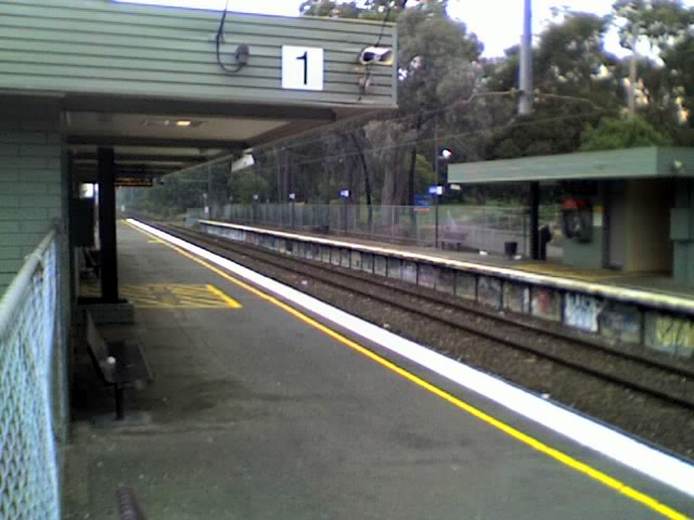 Taken by myself on the 10/06/06. Anyone can use this image for any reason